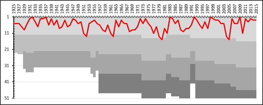 A chart showing the progress of AIK through the swedish football league system. The different shades of gray represent league divisions.